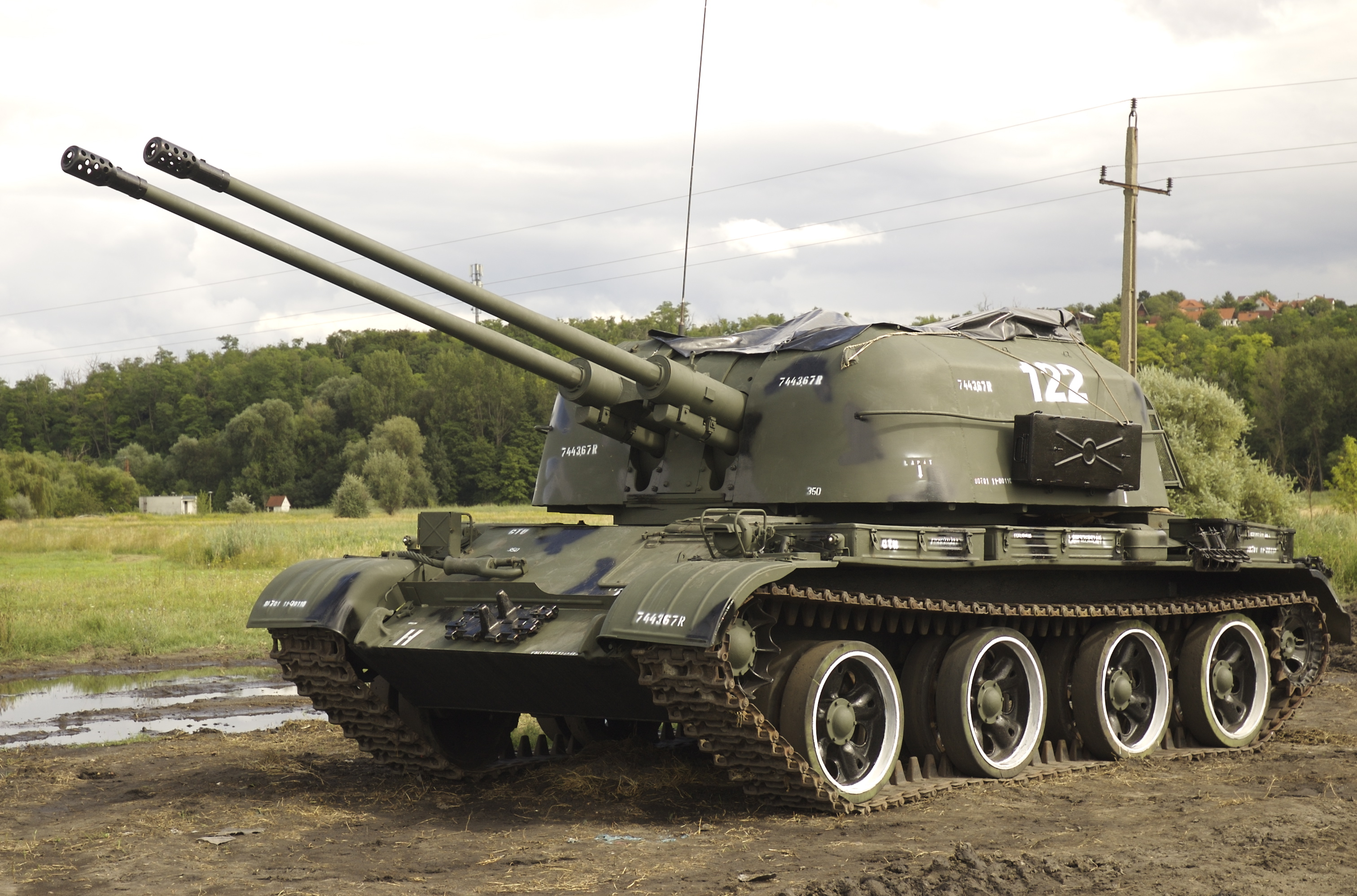 ZSU-57-2 Soviet self propelled anti-aircraft gun